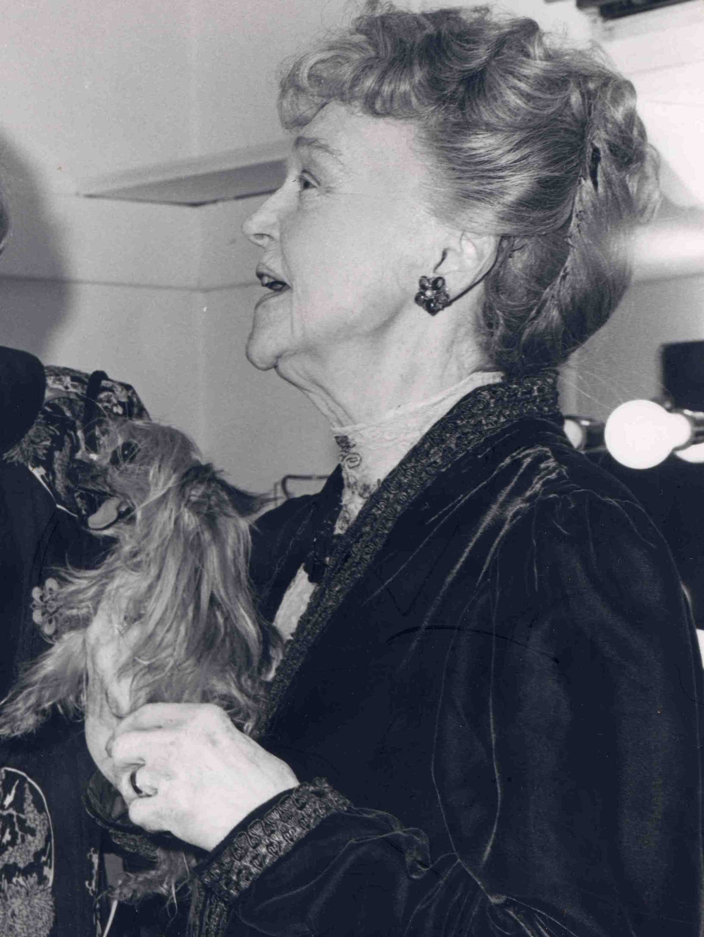 Actress Eva Le Gallienne at a performance of "The Royal Family" at the Wilbur Theatre on October 28, 1976.